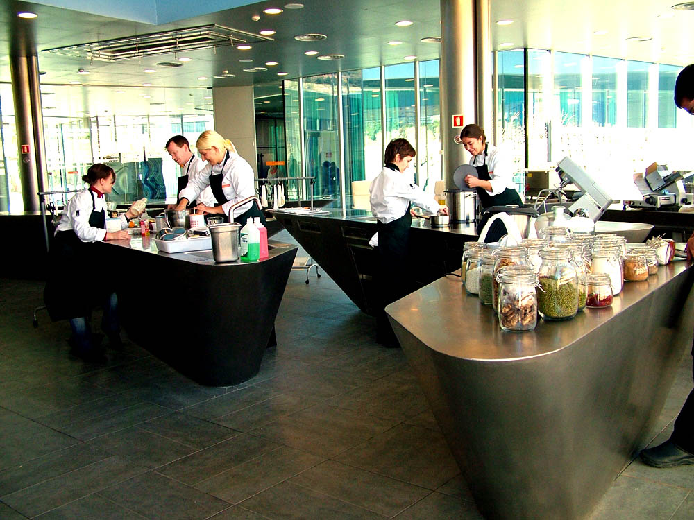 Cooking research in Alícia Foundation